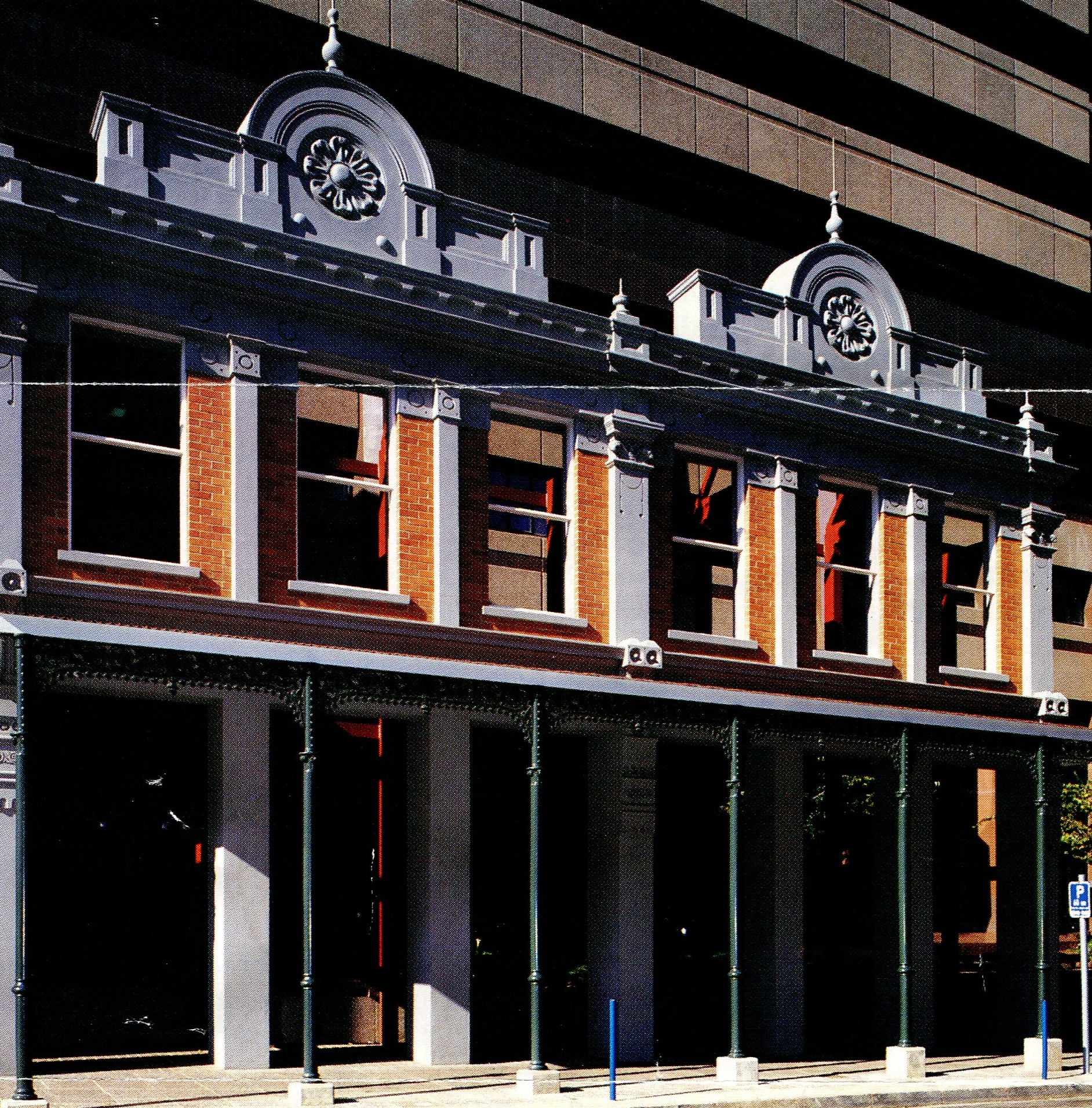 The Kimberly House Facade in Pritchard street. The rest of the building that was demolished was built in 1892